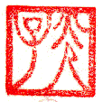 A handmade "gago in" (artistic, highly personalized signature-seal) from Japan. This "gago in" spells out "Mitsuko", a woman's given name, in Japanese ideographs called "Kanji". Note the extremely archaic form of the ideographs for "fire/light" ("Mitsu") and "child" ("Ko"), presented in right-to-left order. Also notice the fairly uniform width of the lines and use of "shu bun" style (red letters on a blank background, with red border), features required in extremely formal "inkan" called "jitsu in" but not essential in the very informal "inkan" called "gago in".